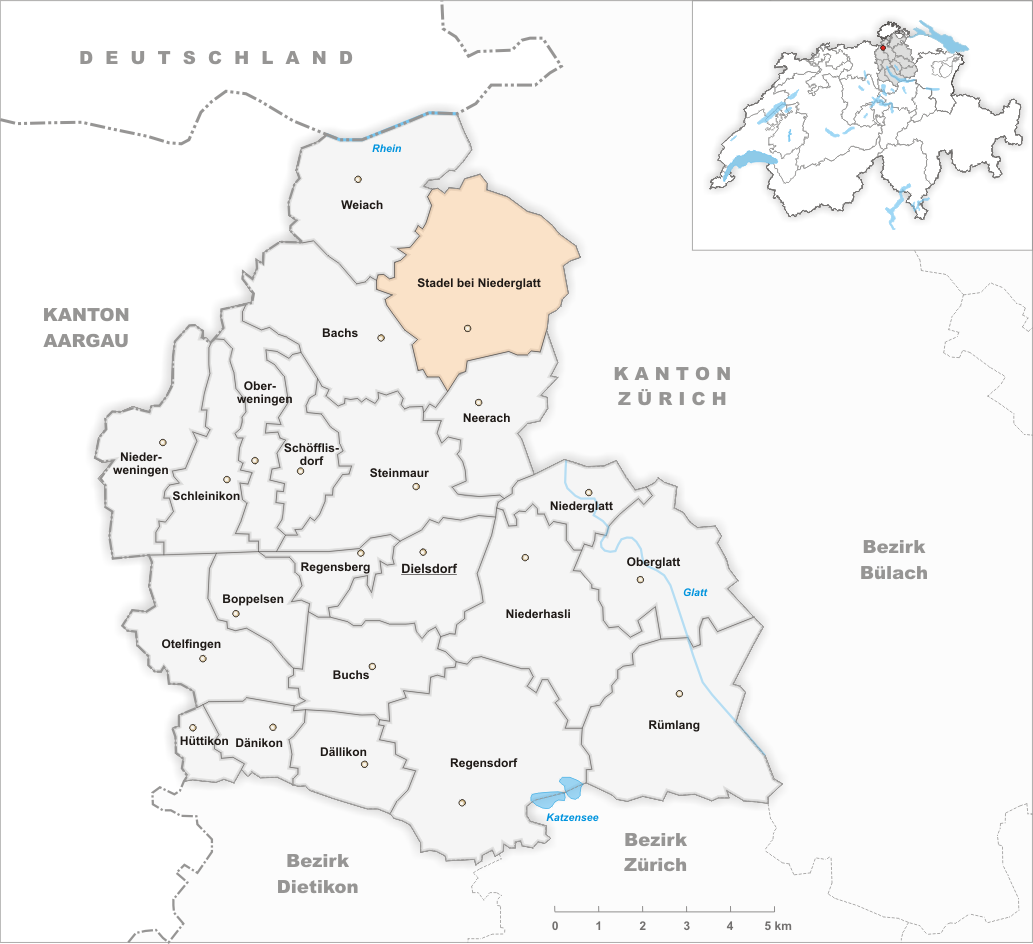 Municipality Stadel